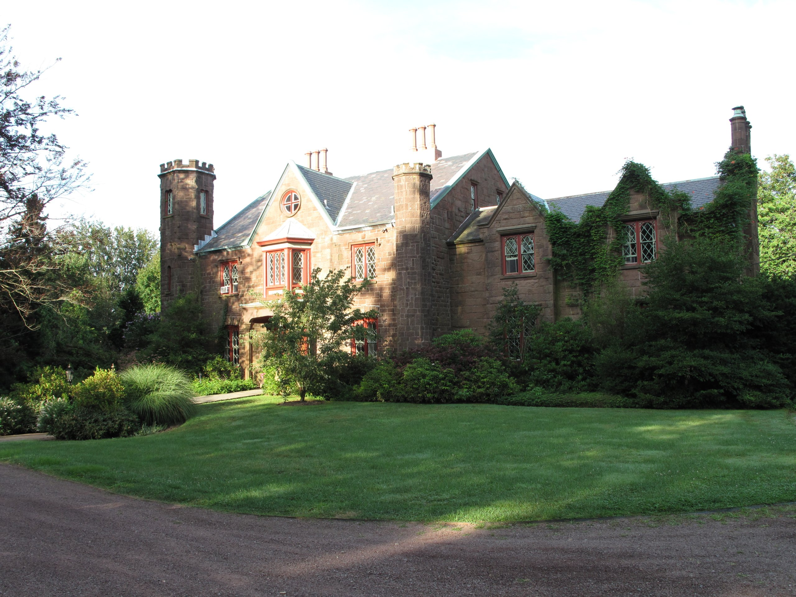 Malbone Castle, Newport, from the North East